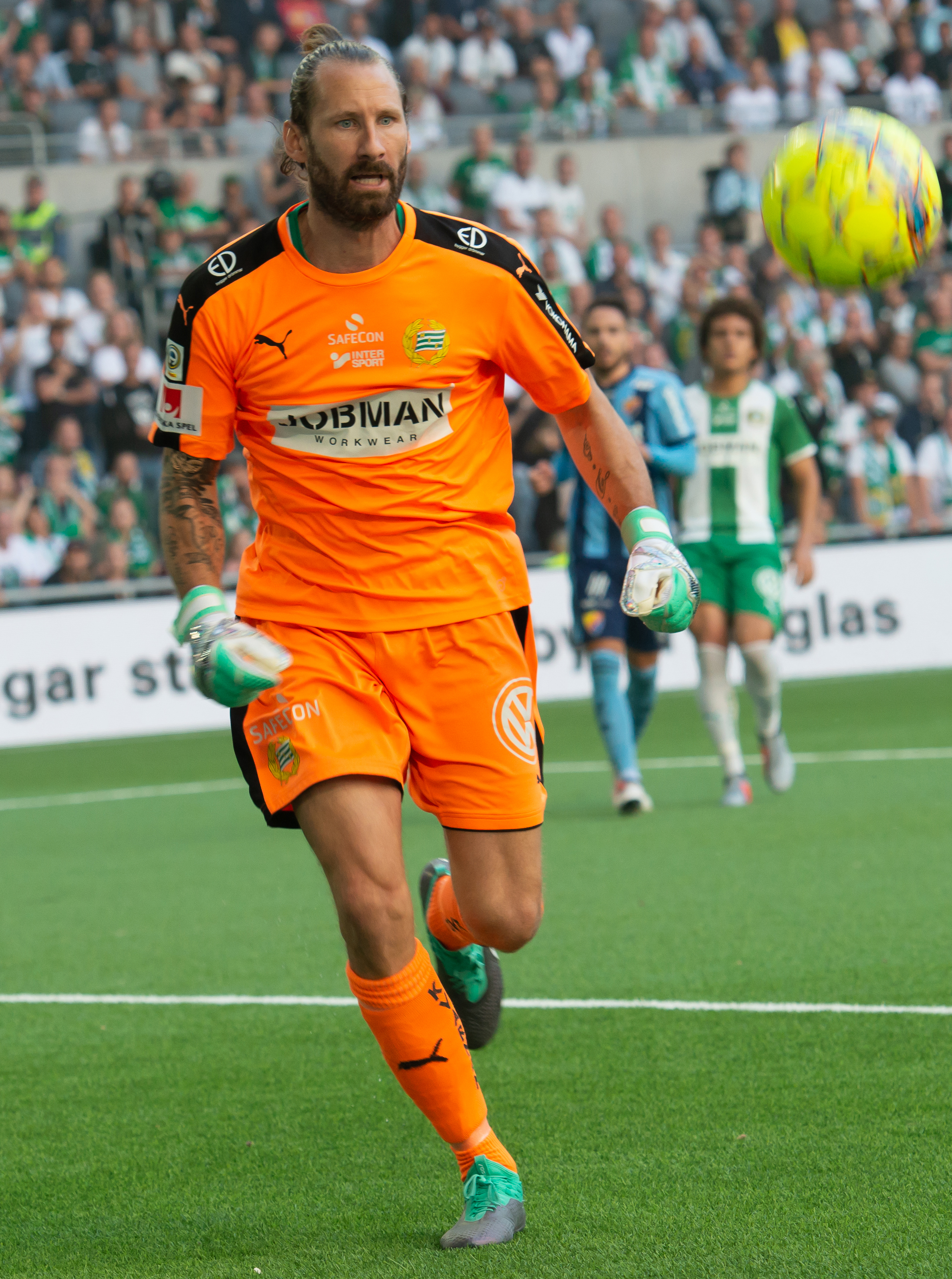 Johan Wiland playing for Hammarby.